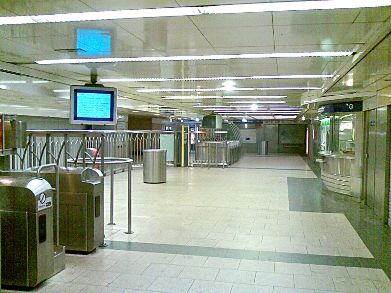 Ticket hall of Paris Métro station. Franklin Roosevelt, Champs-Élysées.